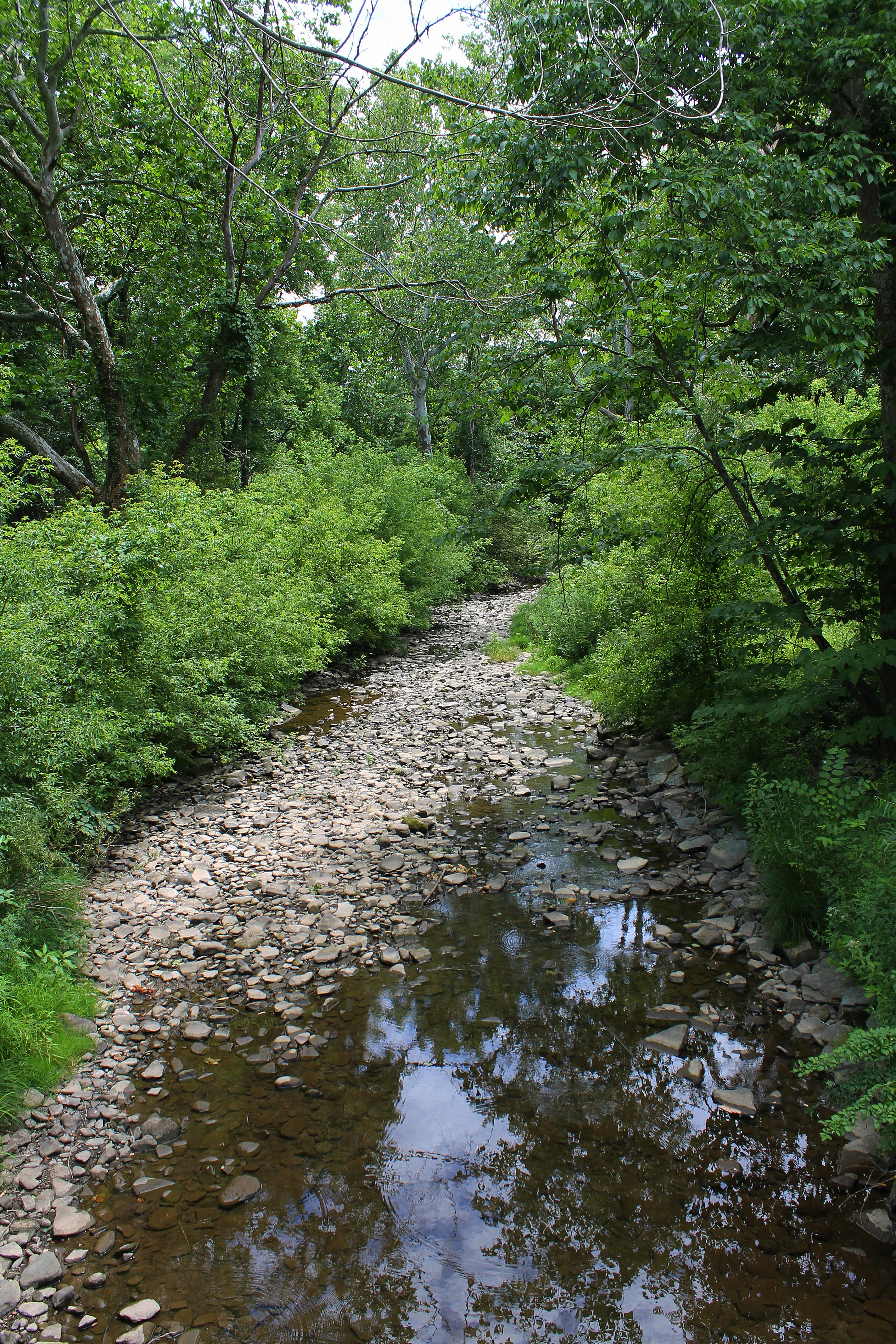 Field Brook, a tributary of Tunkhannock Creek, looking downstream in Wyoming County, Pennsylvania.